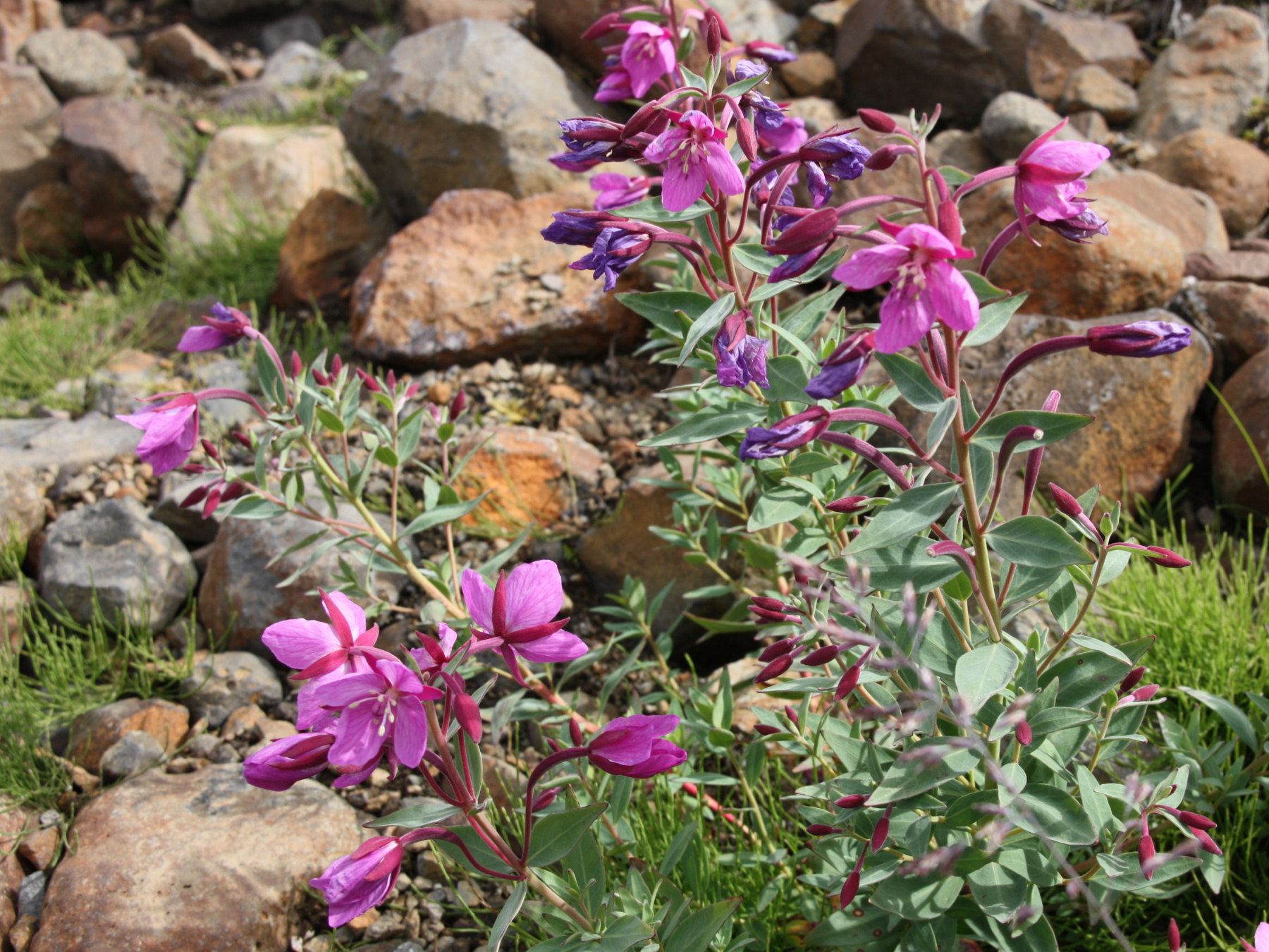 Dwarf fireweed (Chamerion latifolium) in Skaftafell National Park, Iceland.